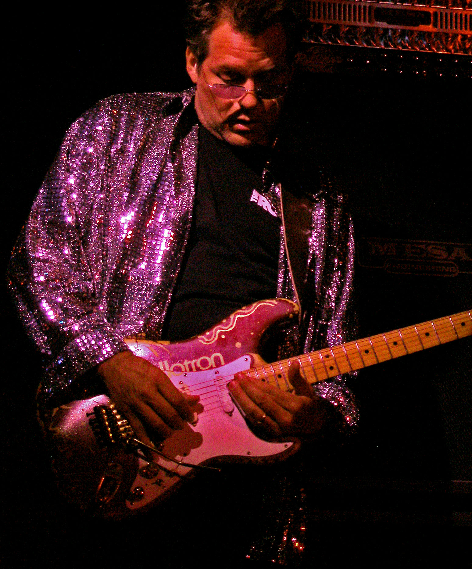 Alan Morse onstage with Spocks Beard at BB Kings in NYC, April 27, 2007.